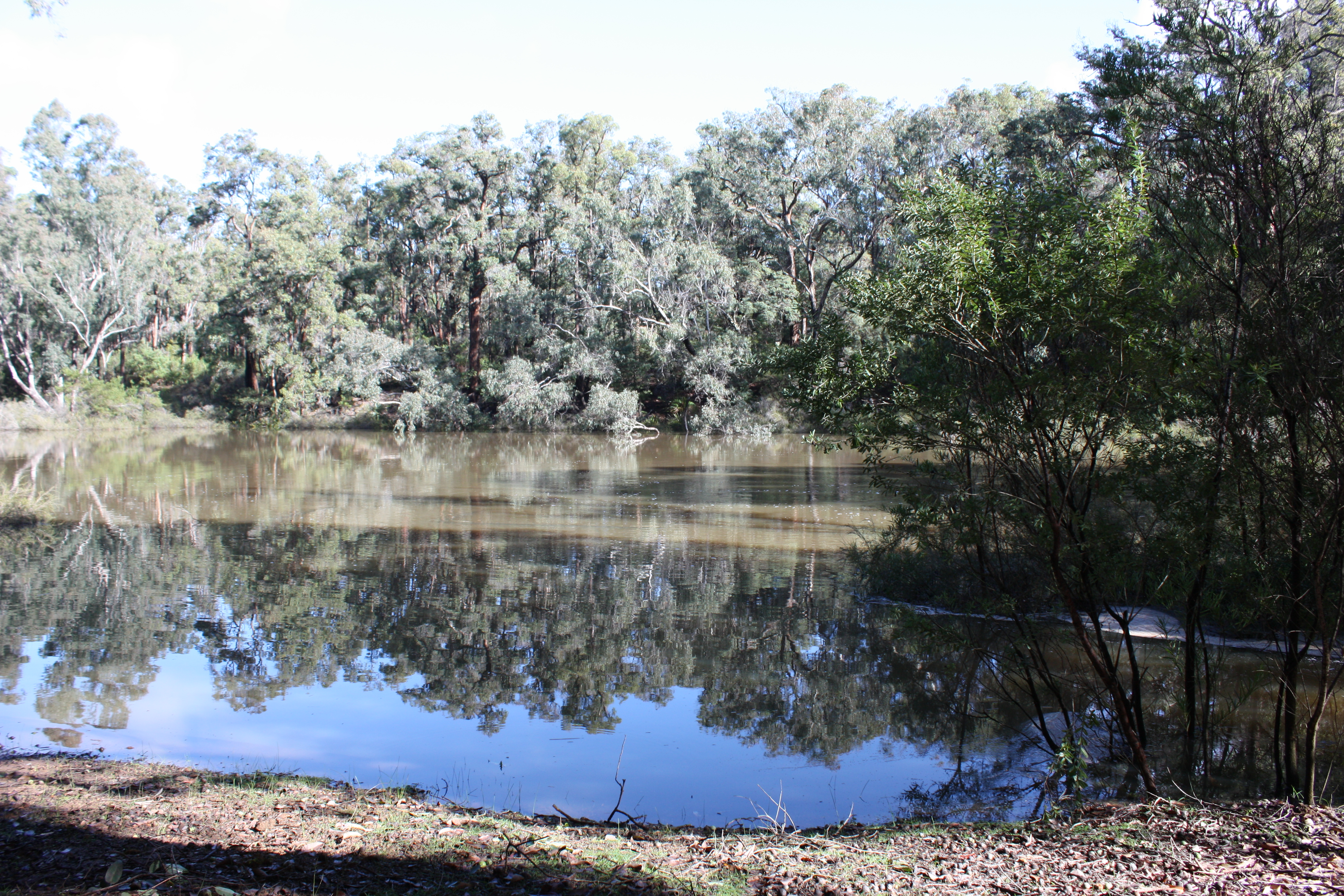 Barrabup Pool, a natural pool on the Blackwood River near Nannup, Western Australia.